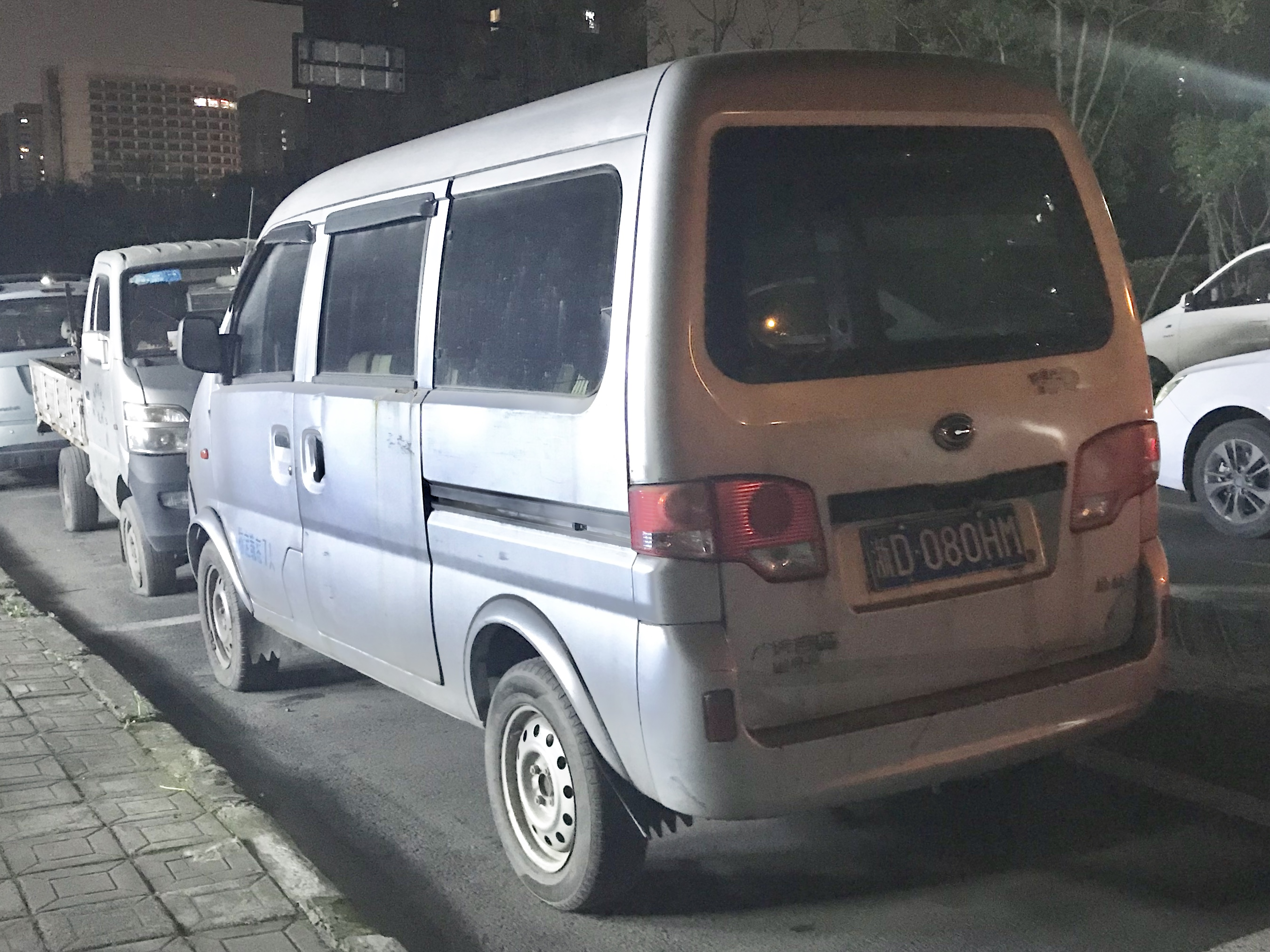 Gonow Way rear